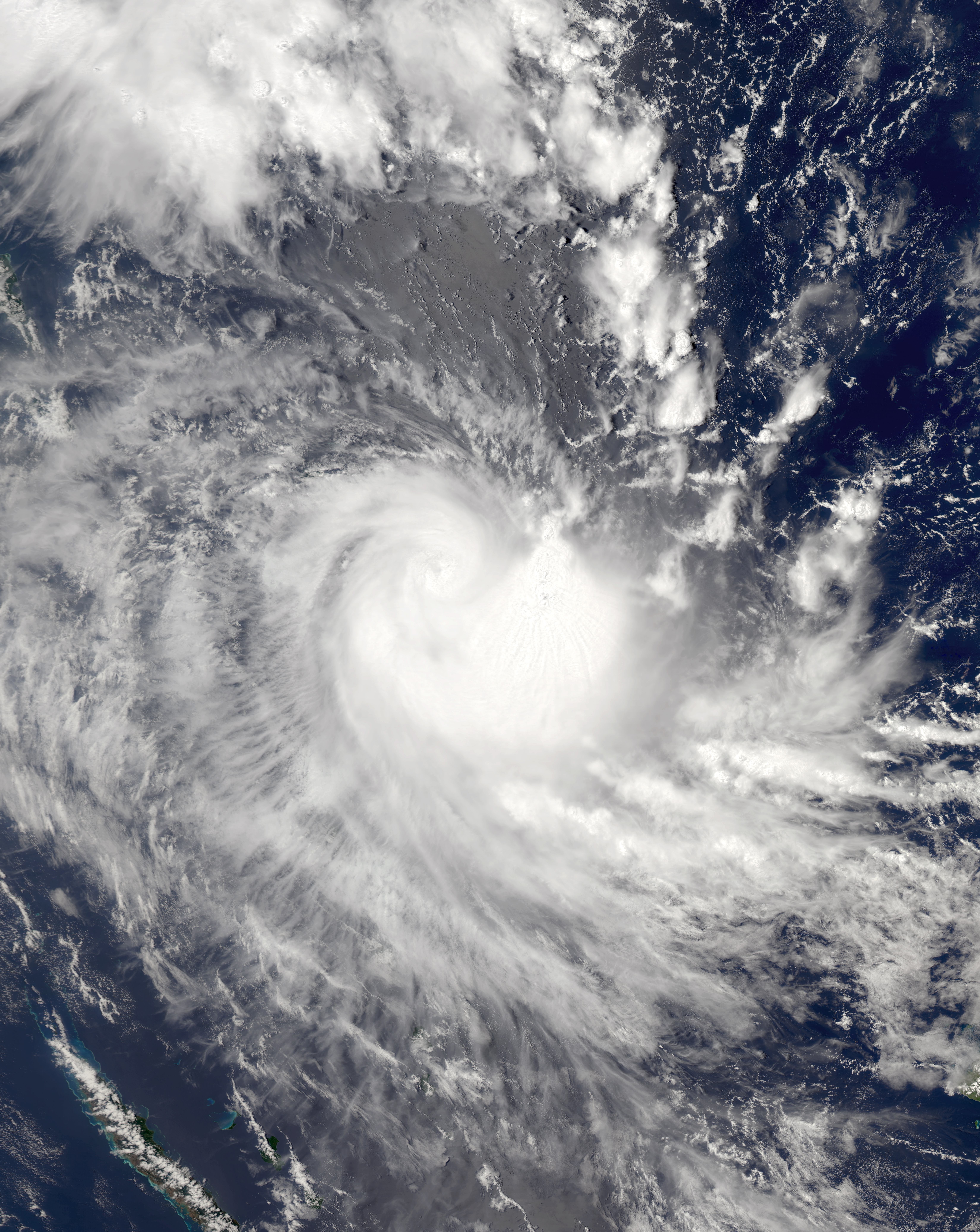 Tropical Cyclone 01F (Xavier) of 2006/07 season, near Vanuatu, on October 23 2006 as seen from MODIS (Aqua satellite). Cropped from original.